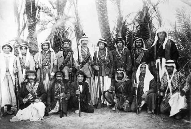 Syrian rebels in the Ghouta led by Druze commander Muhammad Izz al-Din al-Halabi, during the Great Syrian Revolt